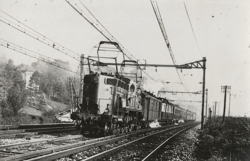 Prototype of electric locomotive PO E 401 or E 402, Ganz, 1926.